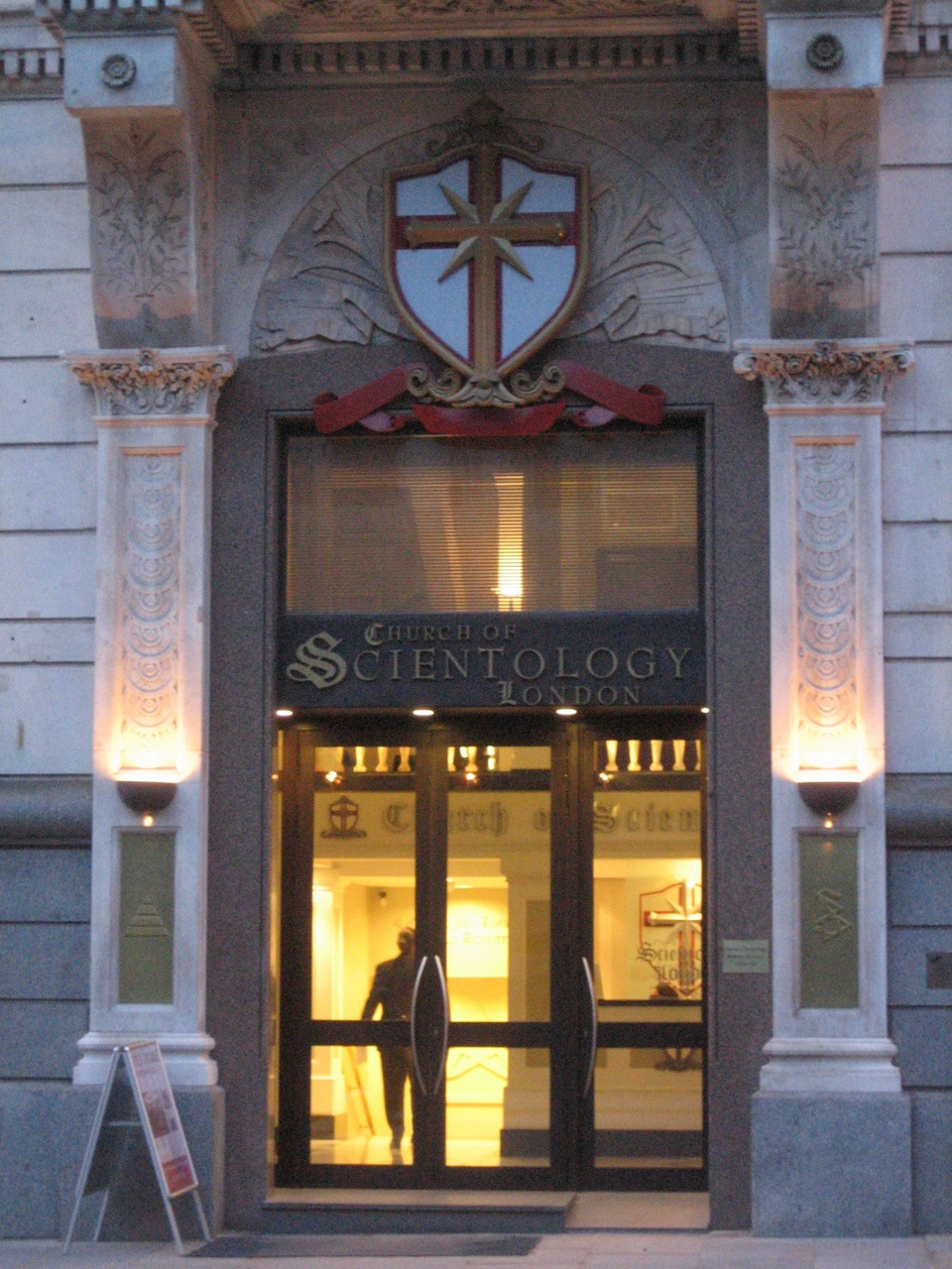 The Church of Scientology on Queen Victoria Street in the City of London. This close-up of the front entrance shows Scientology symbolism including the eight-pointed cross, a pyramid and the double triangle.